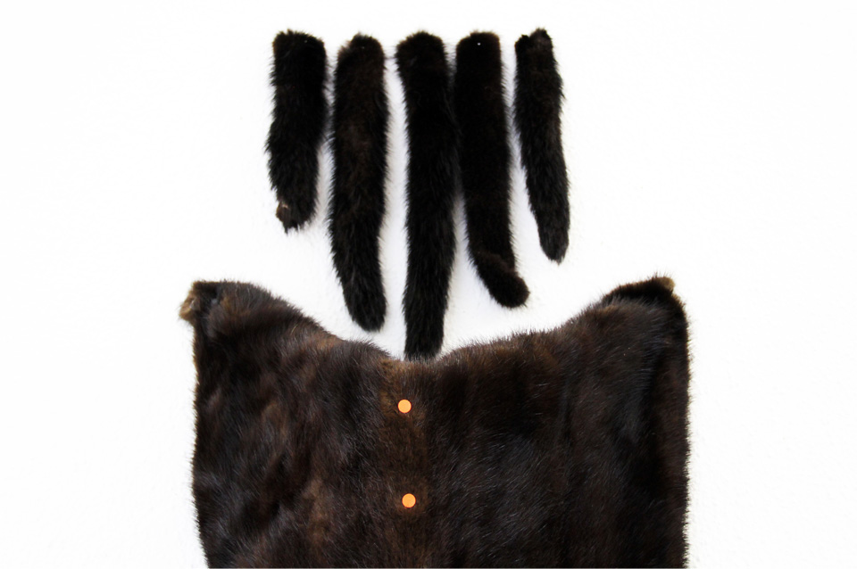 Nina Staehli Berlin, Luzern, Kansas City